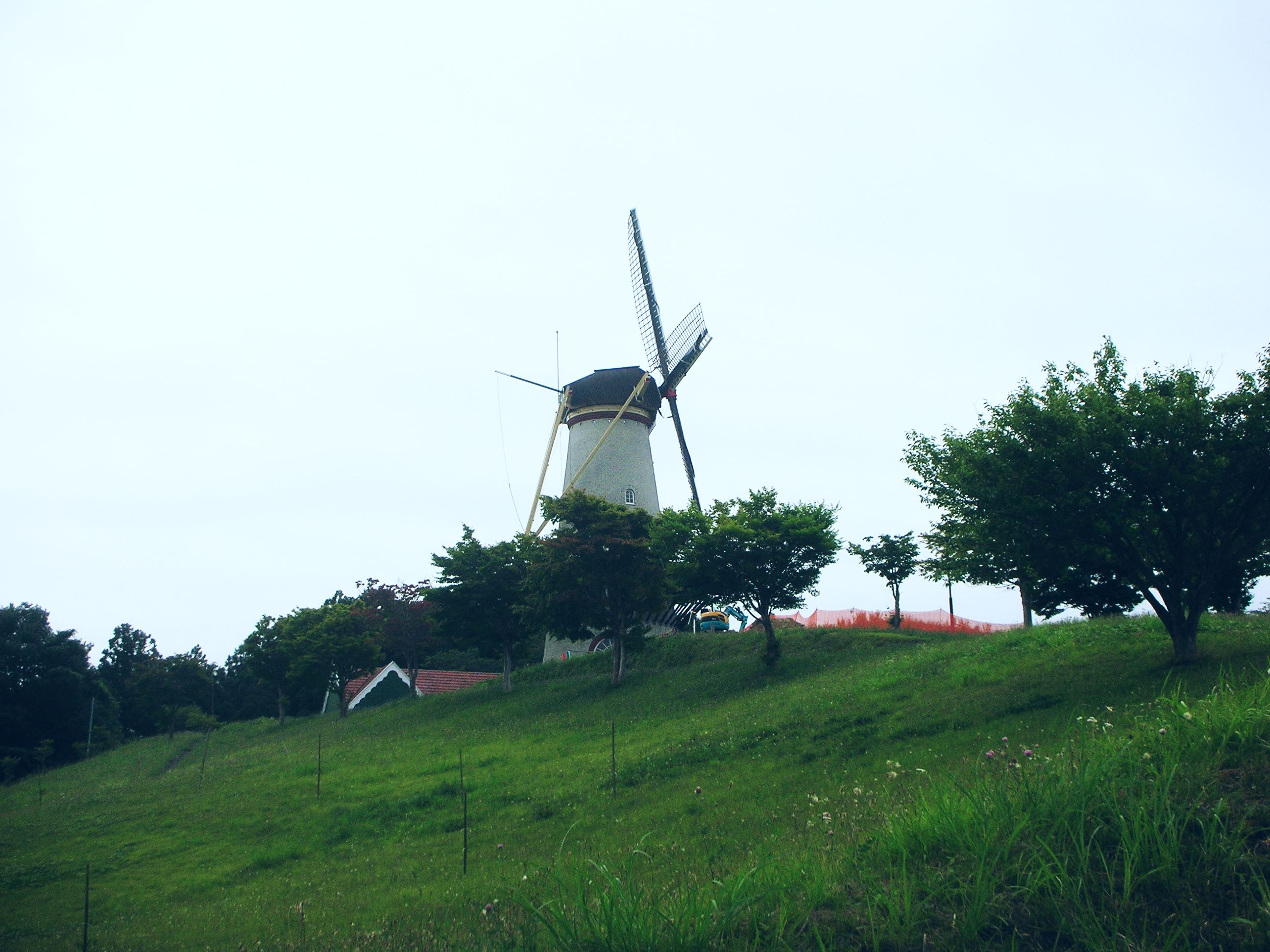 Naganuma Futopia Park in Tome City, Miyagi Prefecture, Japan